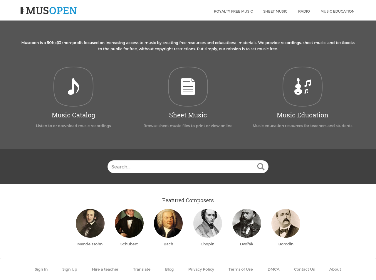 Musopen homepage screenshot as of Aug 2012